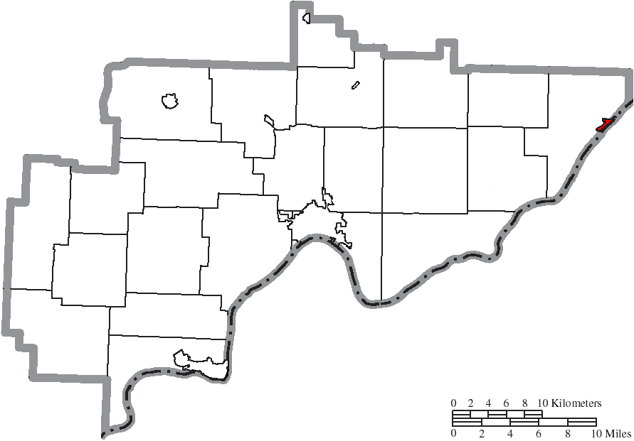 Map of the municipal and township boundaries of Washington County, Ohio, United States, as of the 2000 census, with the location of the village of Matamoras highlighted. Township borders are shown only in unincorporated areas in order to differentiate incorporated and unincorporated areas more clearly.